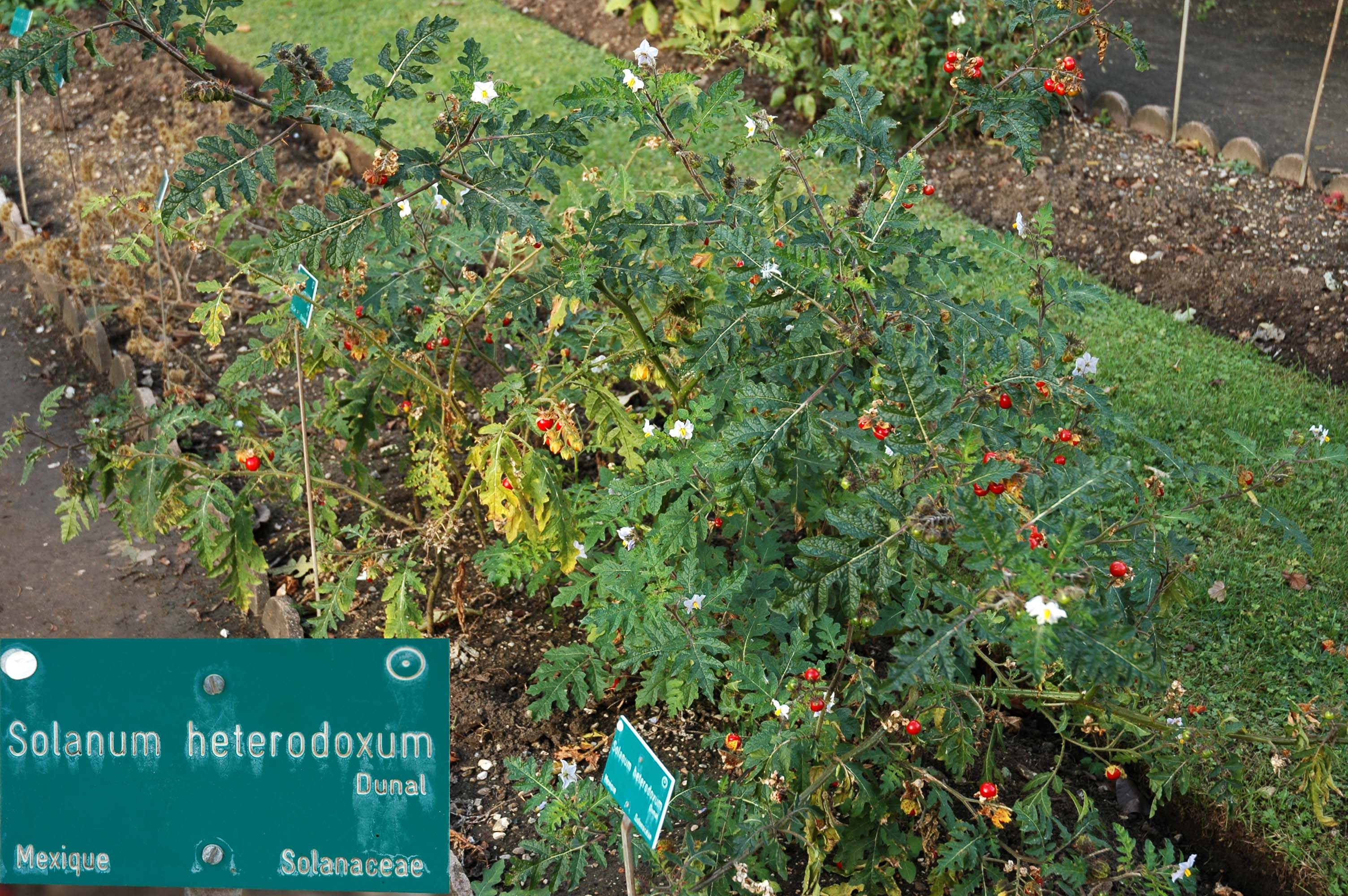 Solanum heterodoxum Dunal in Jardin des plantes in Paris. Other pictures of the same plant